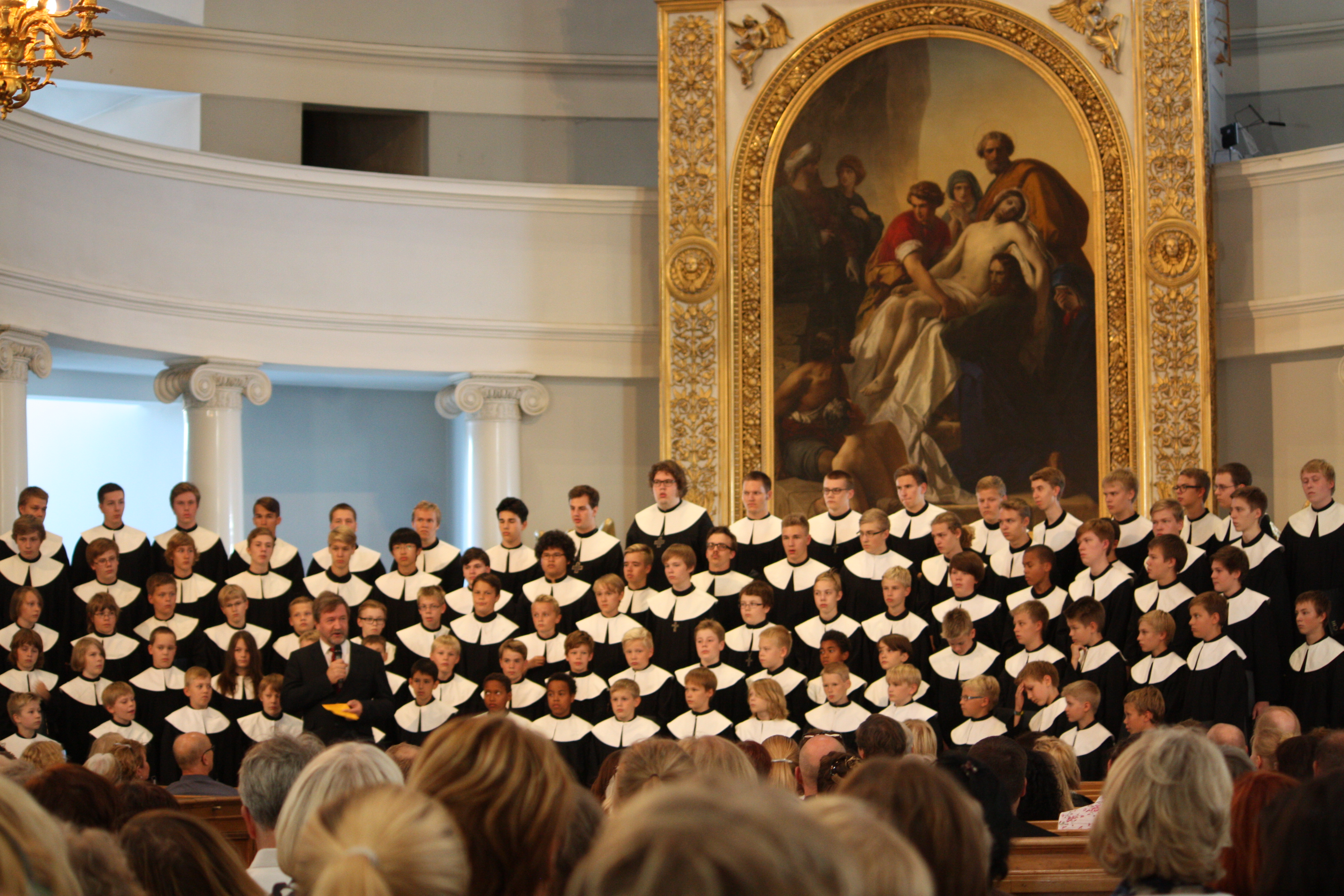 The boychoir Cantores Minores had a consert in the Helsinki Cathedral on the Night of the Arts in Helsinki, 2013.